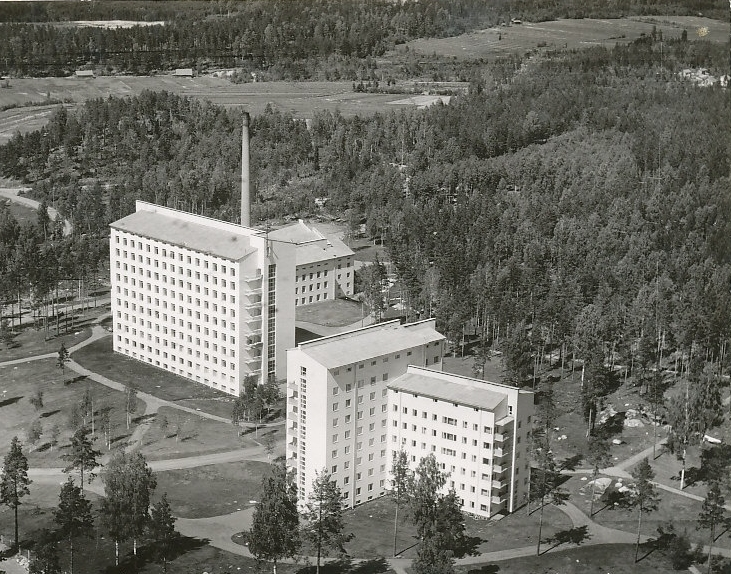 Heinola rheumatism hospital in Finland from air